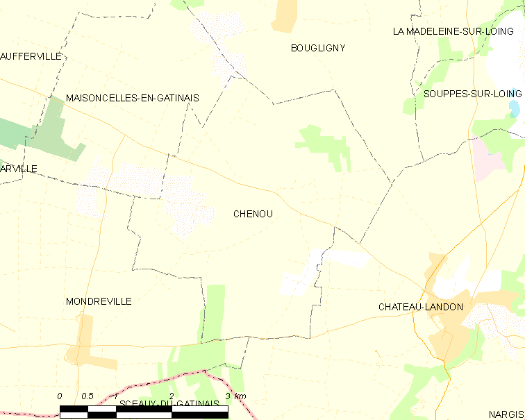 Map of French municipality Chenou